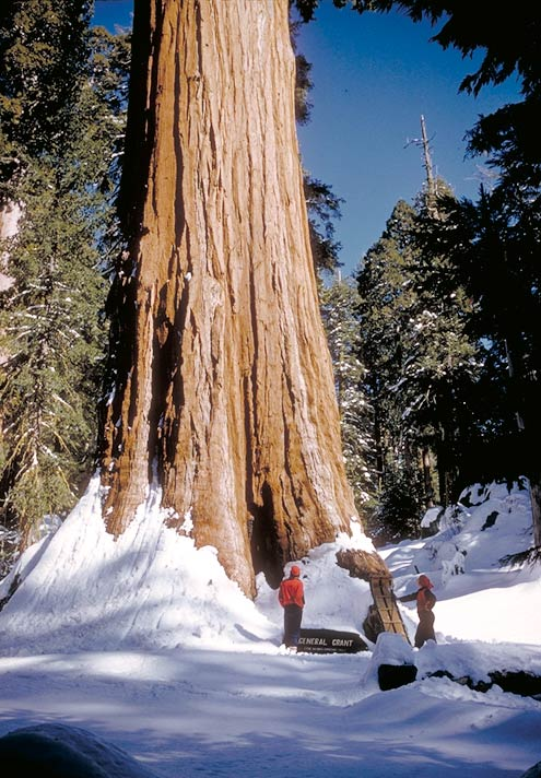 Giant Sequoia (Sequoiadendron giganteum) in Sequoia National Park, California, United States. The tree is named General Grant. With a height of approximately 81.5 metres (267 ft), it is the third highest known tree in the world. The diameter at the base of the tree is over 32 metres (105 ft). Its age is estimated at 1,800 to 2,000 years.